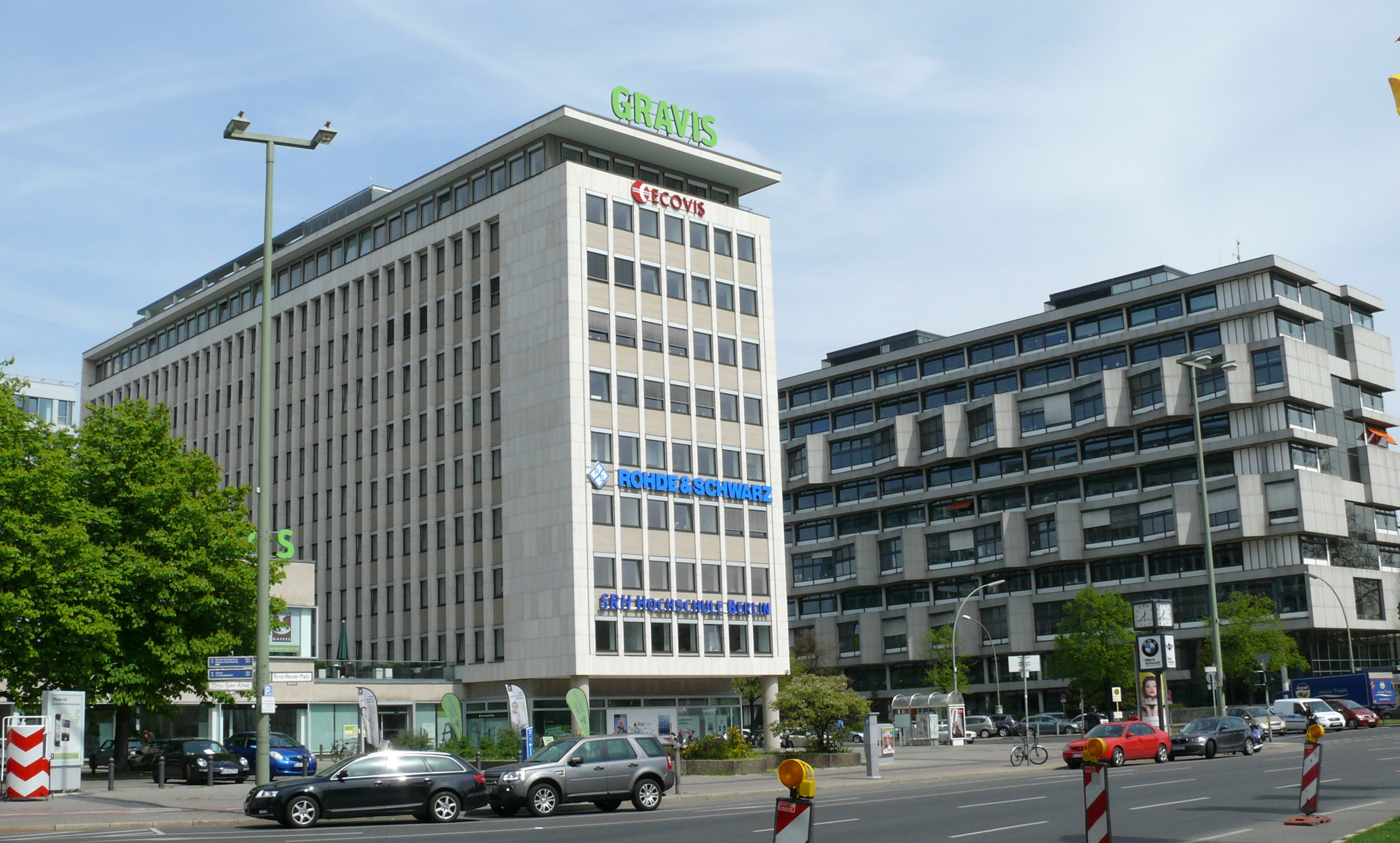 Berlin-Charlottenburg Ernst-Reuter-Platz Pepper-Haus